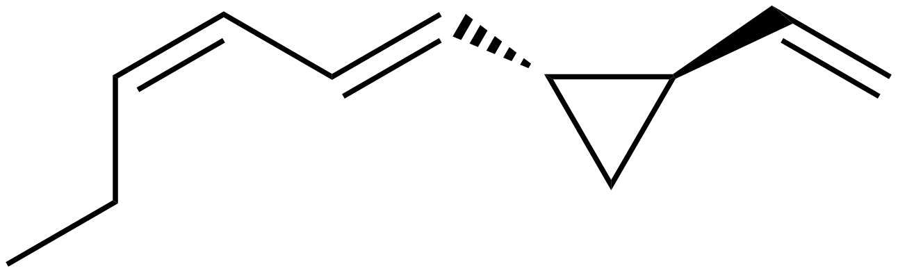 Chemical structure of hormosirene